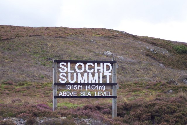 Slochd Summit. The sign next to the railway line says it all!